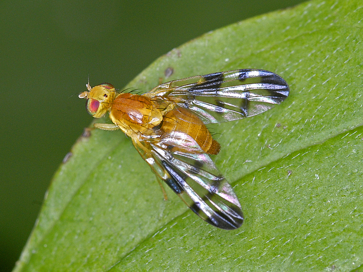 Female of Trypeta zoe. Creto, Genova, Italy